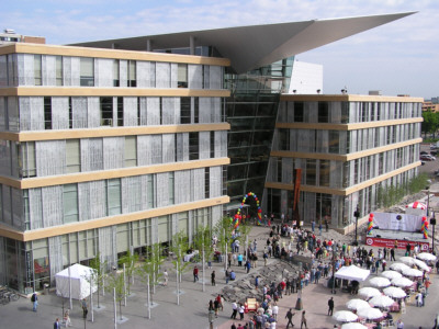 The new Central Library completed in 2006. Photograph released under GFDL per Charles Gimon, Web Coordinator, Minneapolis Public Library.